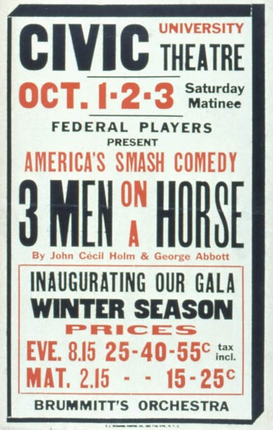 Title Three Men on a Horse Creator George Abbott (1887-1995); John Cecil Holm (1904-1981) Other Contributors Federal Art Project, sponsor; Federal Theatre Project (U.S.), sponsor; United States. Work Projects Administration, sponsor Catalog No. F29-6A-1 Date Created 1936-10 Date Issued 2003-01-02 Subjects Theatrical posters, American Comedy DOC Collection(s) Federal Theatre Project Poster, Costume, and Set Design Slides Collection Web Site Links for viewing/playing this object Digital Collection Web site: Multi-page image viewer: Display Files Web display version: F29-6A-1display.jpg (image/jpeg) 69775 bytes